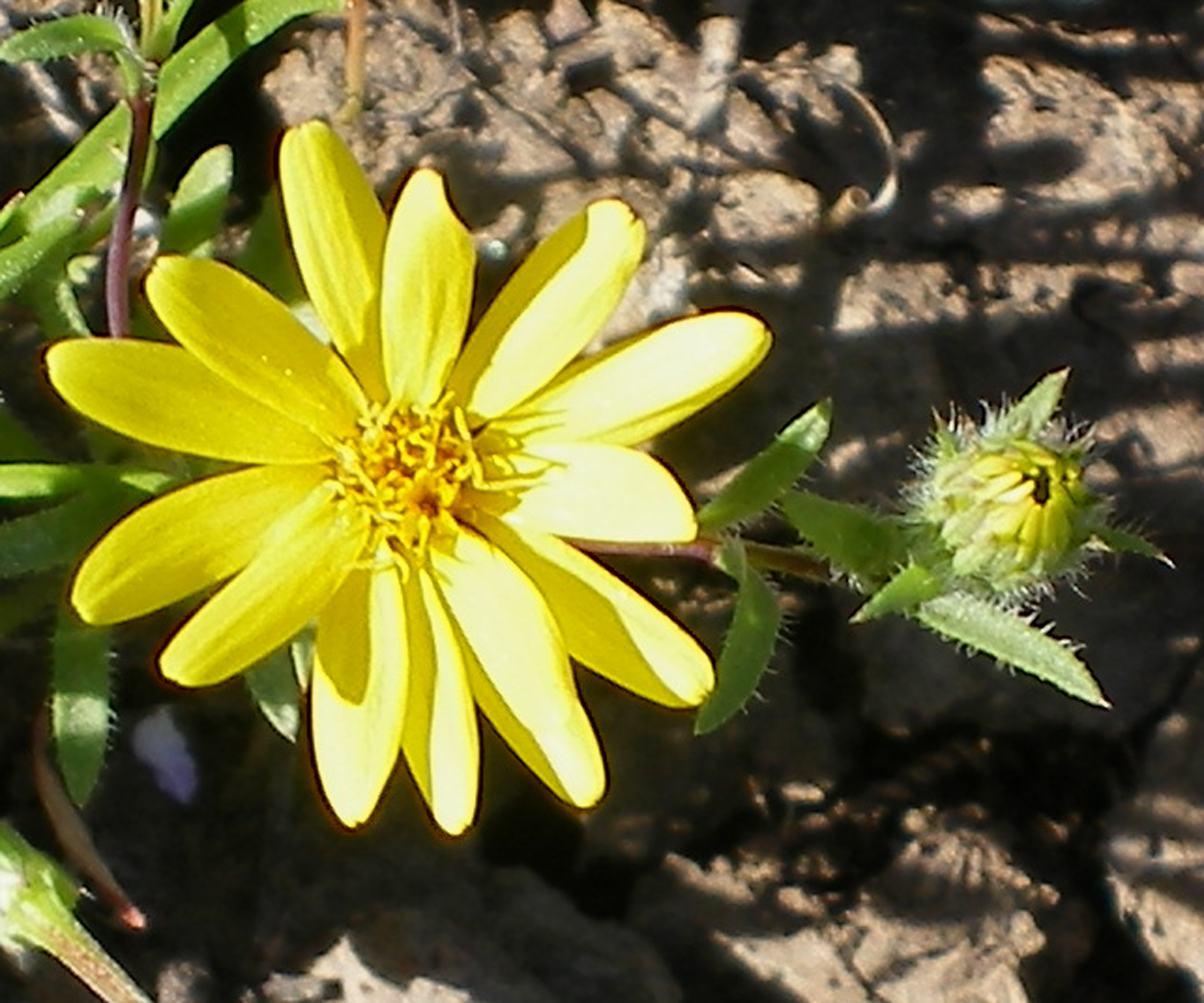 Close up of pentachaeta lyonii